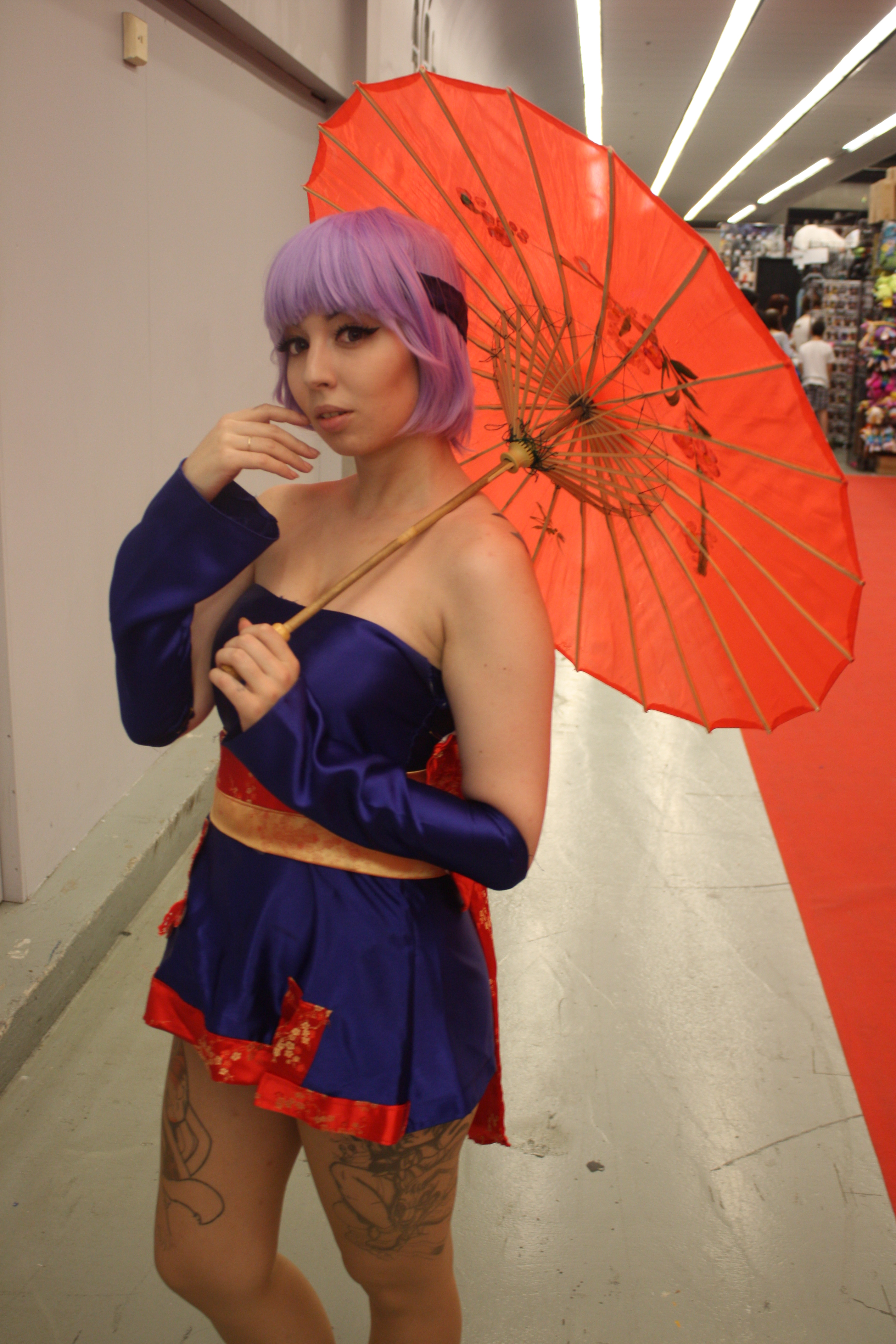 Cosplay one day one of Montreal Comiccon 2015.